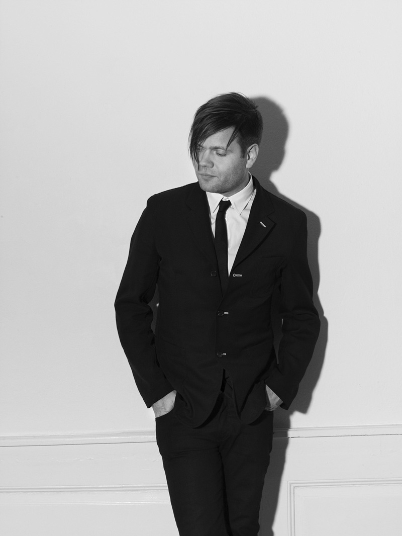 Anders Trentemøller (2010, by Noam Griegst)